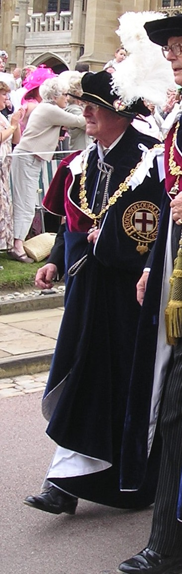 Lord Kingsdown wearing his robes as a Knight Companion of the Order of the Garter, in procession to St George's Chapel, Windsor Castle for the annual service of the Order of the Garter.